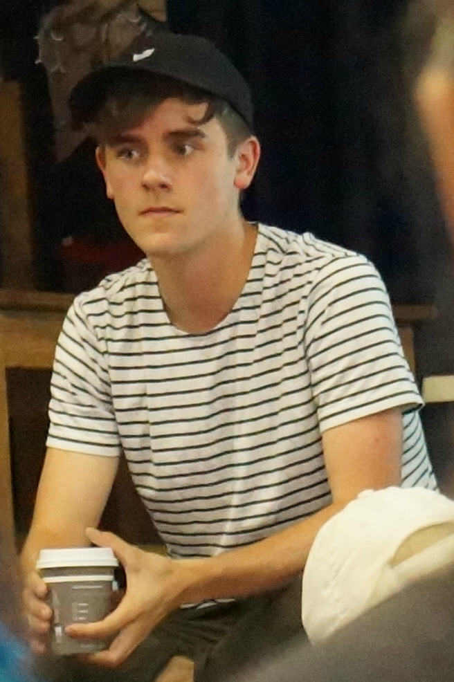 Connor Franta during a session at Camp17's Creator Camp. Taken on August 24, 2016.